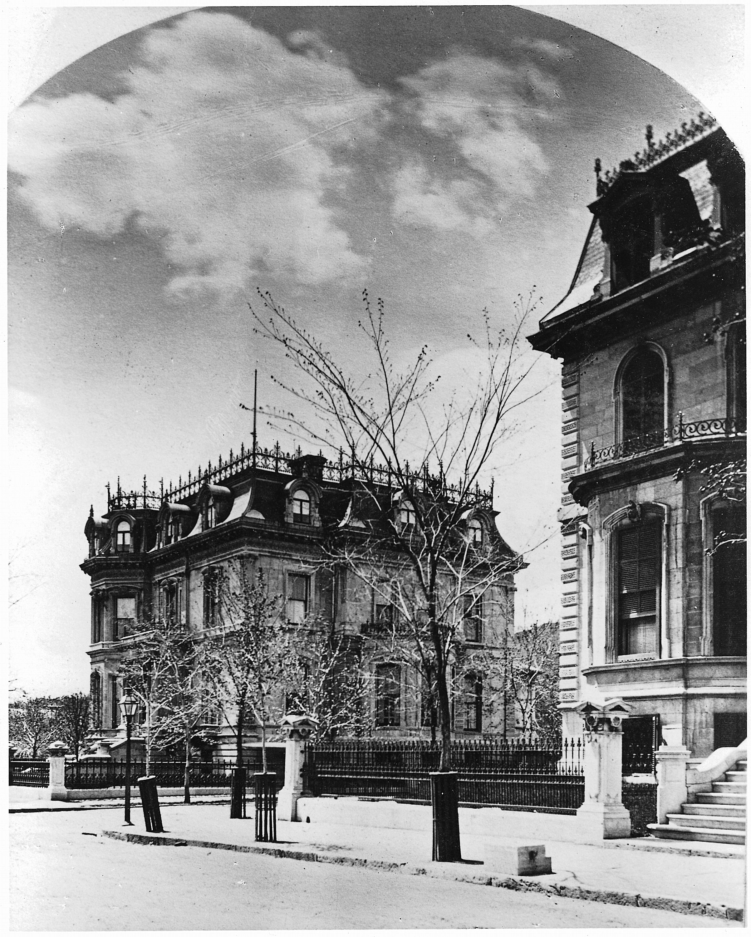 Photograph of William Workman's house, Sherbrooke and University Streets, Montreal, QC, about 1878. William Notman (1826-1891) 1930-1950, 20th century Silver salts on film (safety) - Gelatin silver process 17 x 12 cm Purchase from Associated Screen News Ltd.